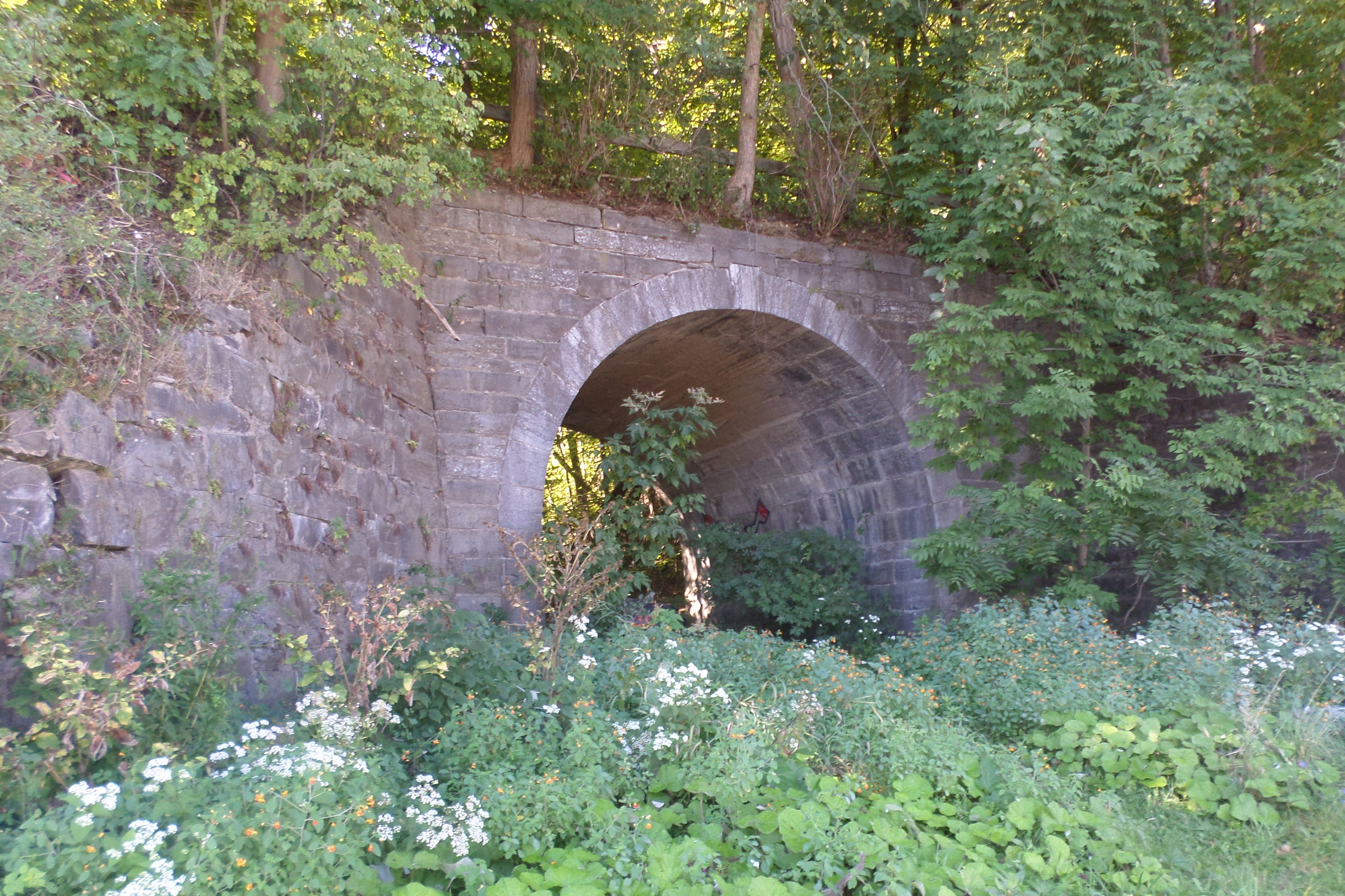 Troy & Schenectady Railroad overpass crossing the former path of Balltown Road in Niskayuna, NY, near Balltown and Aqueduct roads.